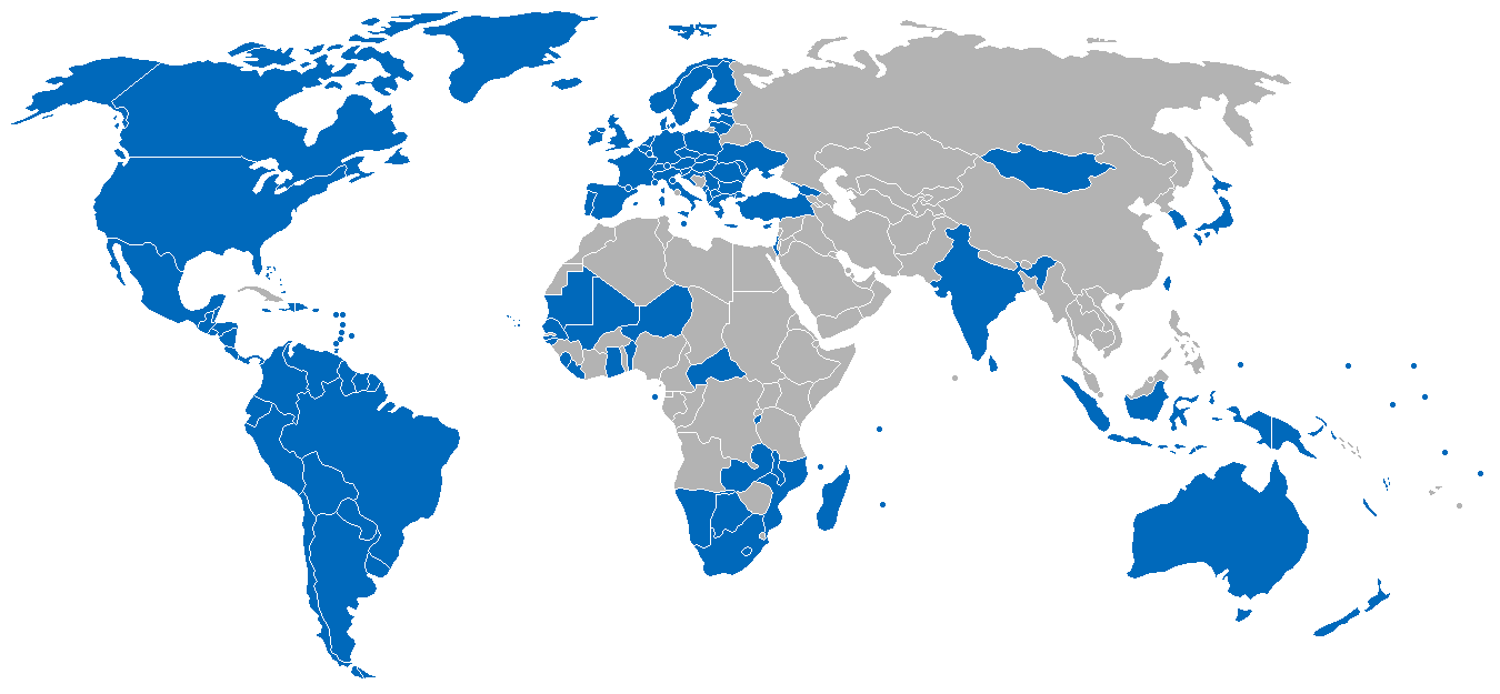 World map showing the 2008 (based in 2007 data) countries considered “electoral democracies” (in blue), according to American organization Freedom House. Reference: Map of Freedom in the World 2008